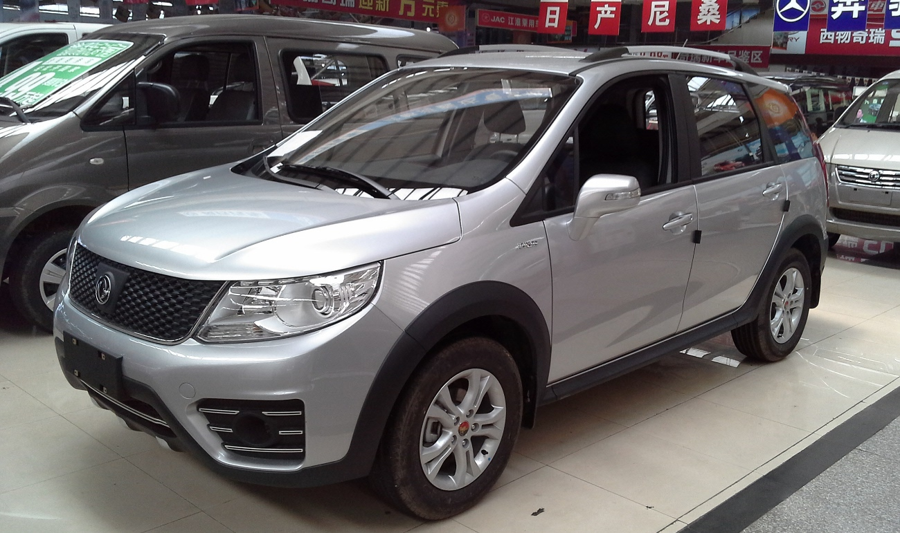 Dongfeng Fengxing Jingyi X3 photographed in Chengdu, Sichuan province, China.